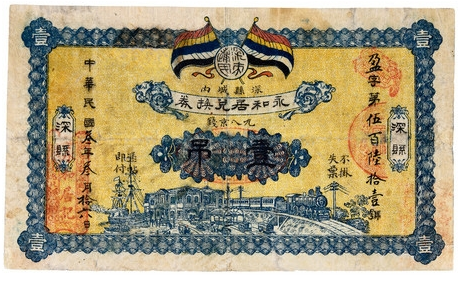 A banknote of the Republic of China denominated in "a string of Beijing/Capital cash coins".